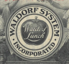 Extract from stock certificate issued in October 1925; company went public before 1920 (